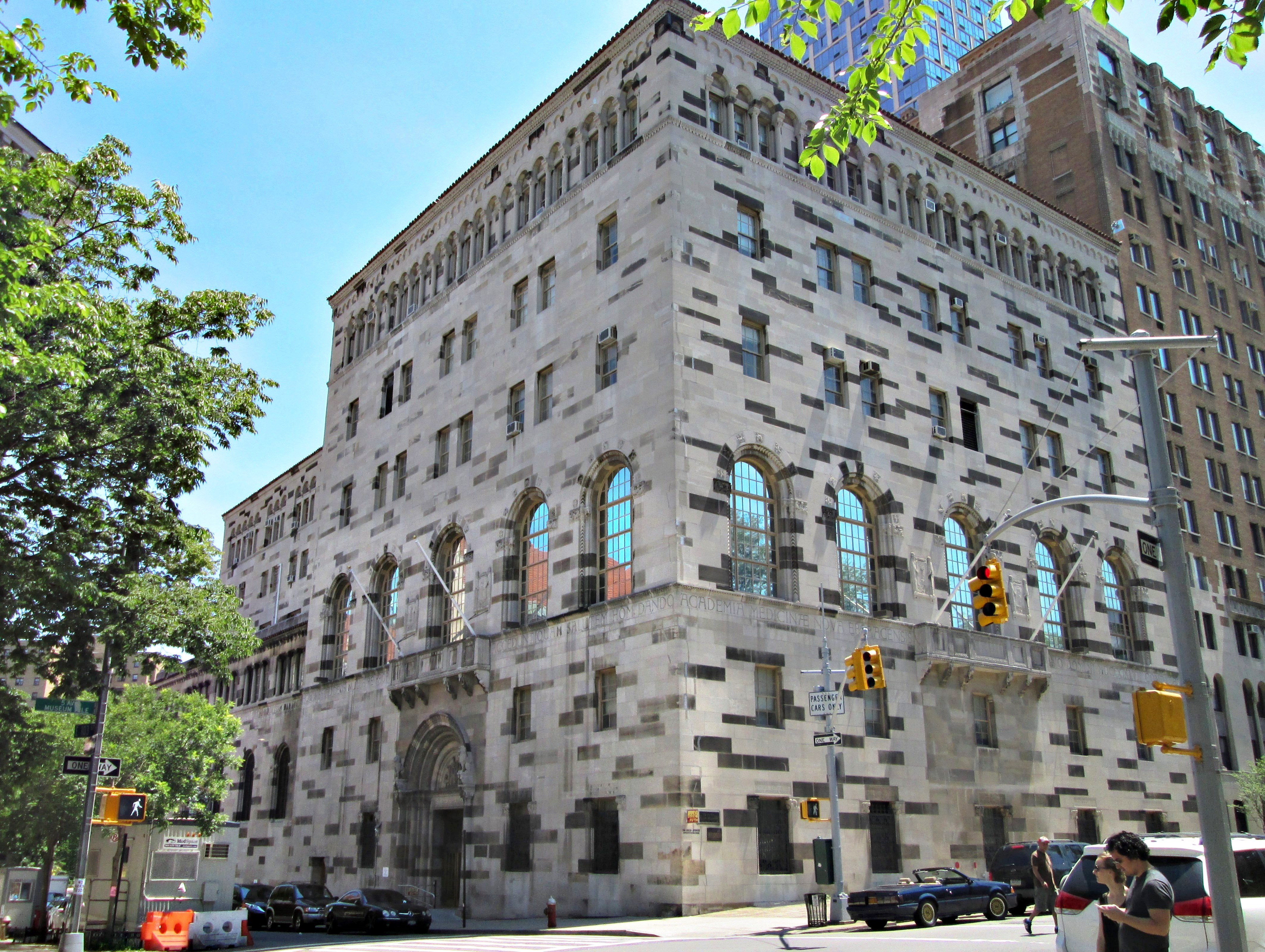 The New York Academy of Medicine was founded in 1847 a voice for the medical profession in medical practice and public health reform. It established the Metropolitan Board of Health, the first modern municipal public health authority in the United States. In 1926, the Academy moved to its current location, a new building designed in an eclectic style by York & Sawyer at 2 East 103rd Street at the corner of Fifth Avenue, across from Central Park in the East Harlem neighborhood of Manhattan, New York City. The Academy Library is one of the three largest medical collections in the United States and is open to general public. (Source: AIA Guide to NYC (5th ed.))